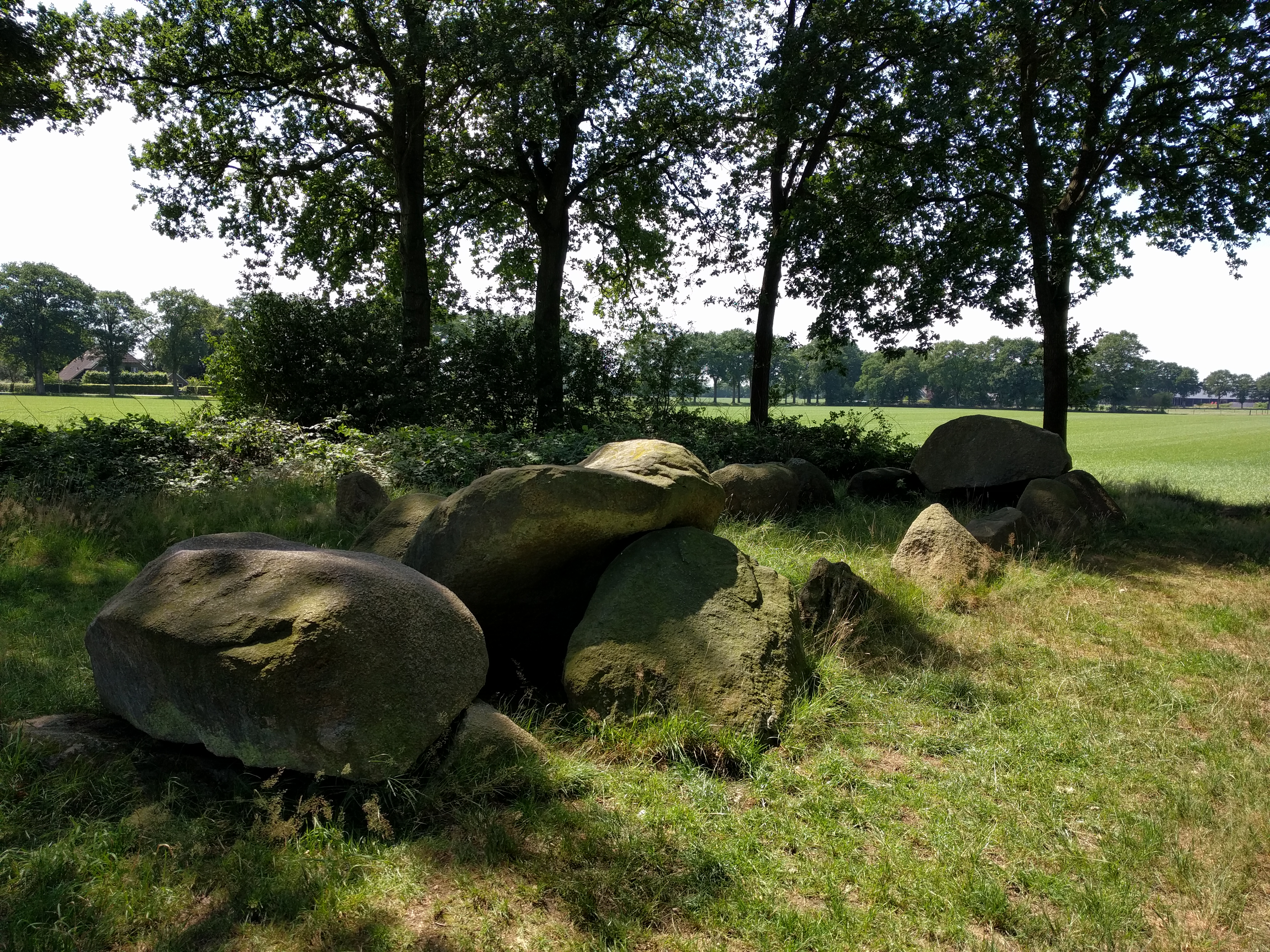 Hunebed in Drenthe